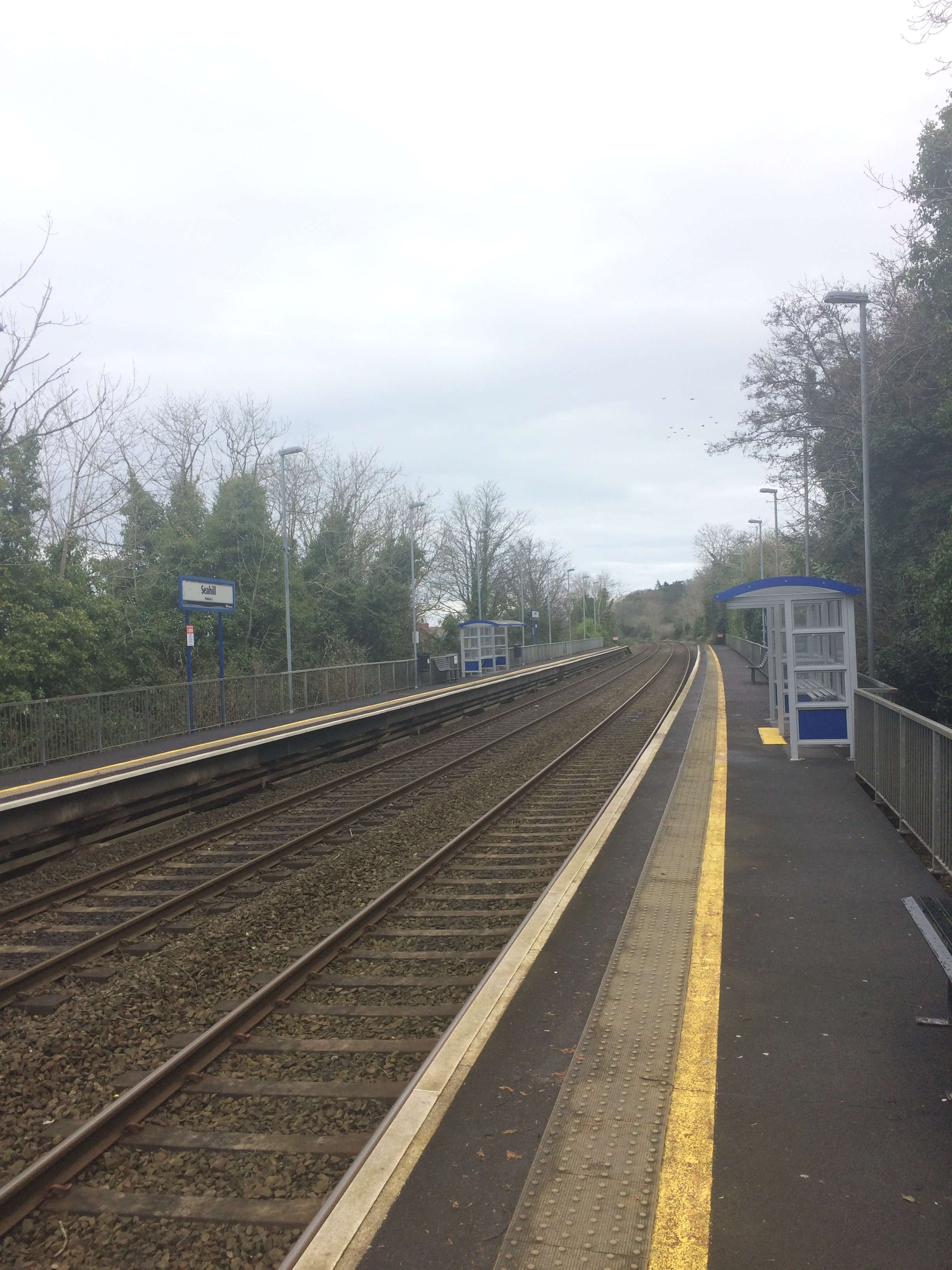 an image of Seahill railway station, captured on the 5th March 2017.